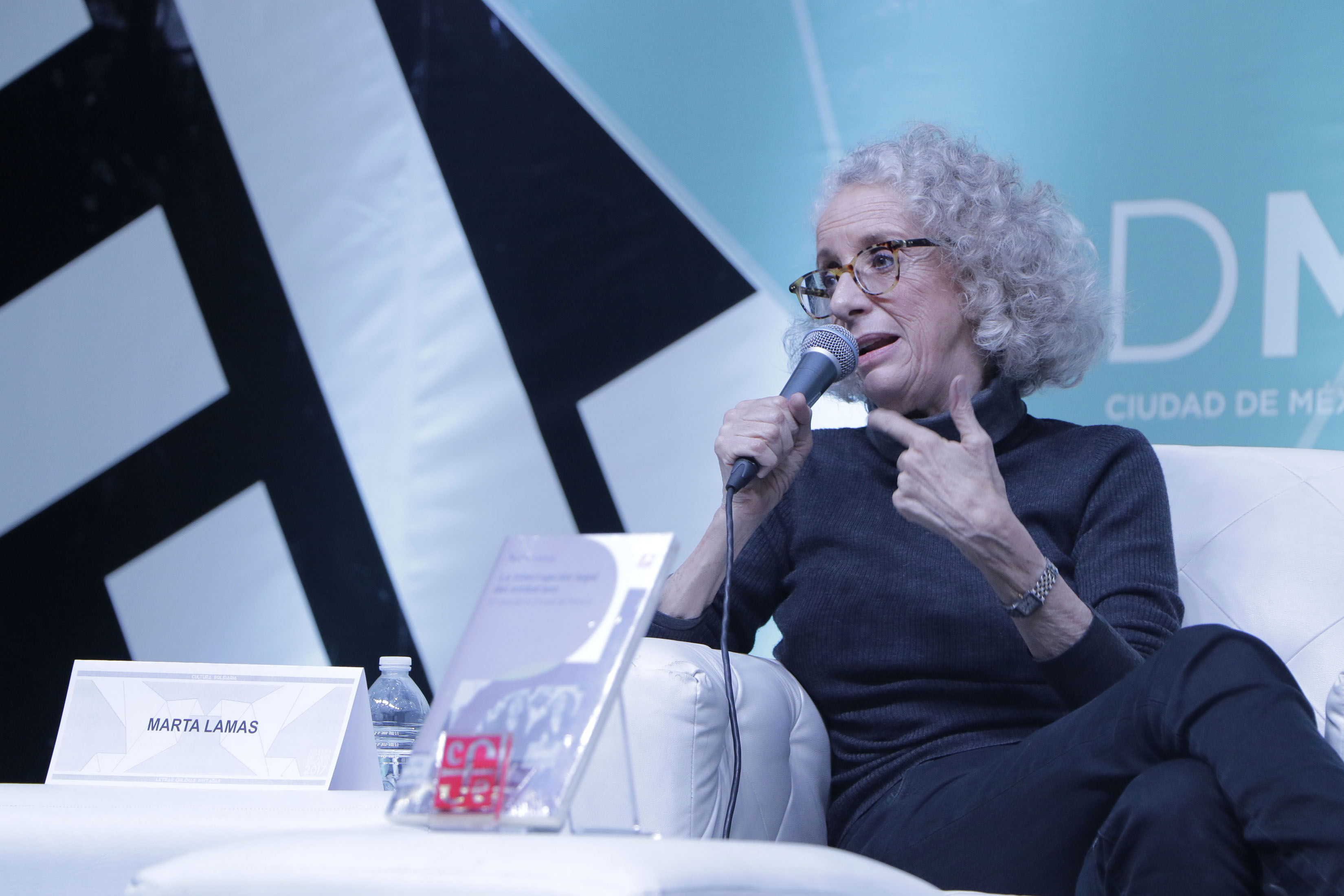 Marta Lamas speaking on the presentation of one of her books on Mexico City. Tuesday, October 17, 2017. Picture by Tania Victoria / Secretaria de Cultura CDMX.